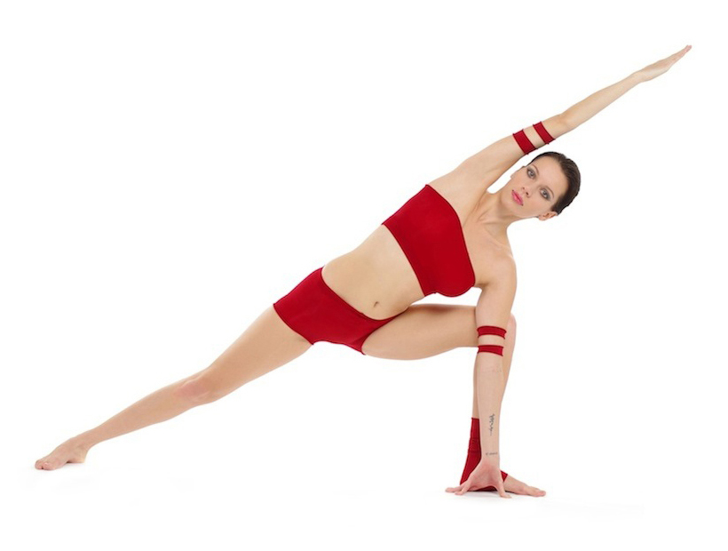 Utthita Parshvakonasana by Nina Mel, Yoga Teacher